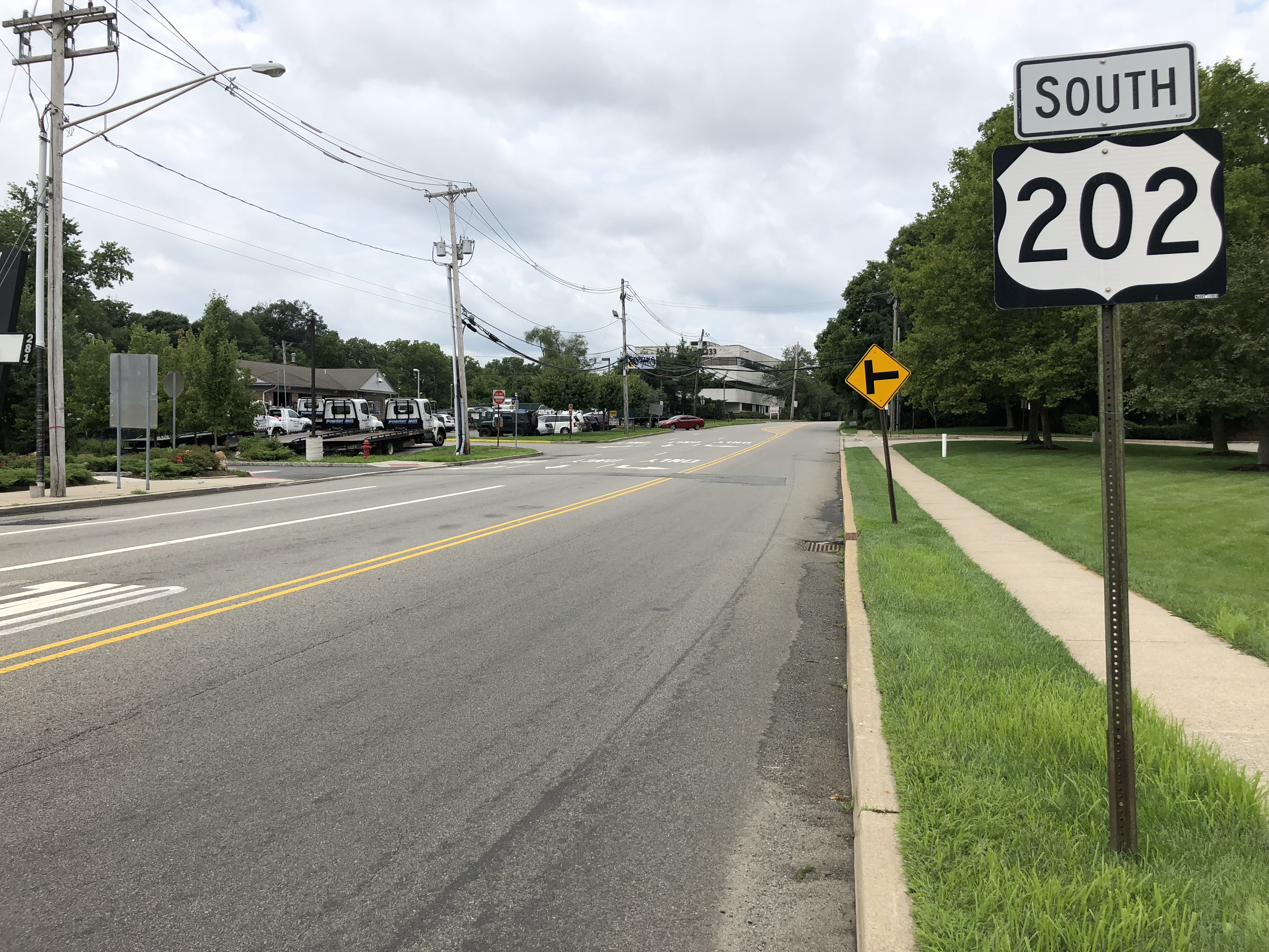 View south along U.S. Route 202 (Littleton Road) at Morris County Route 511 (Parsippany Road) in Parsippany-Troy Hills Township, Morris County, New Jersey